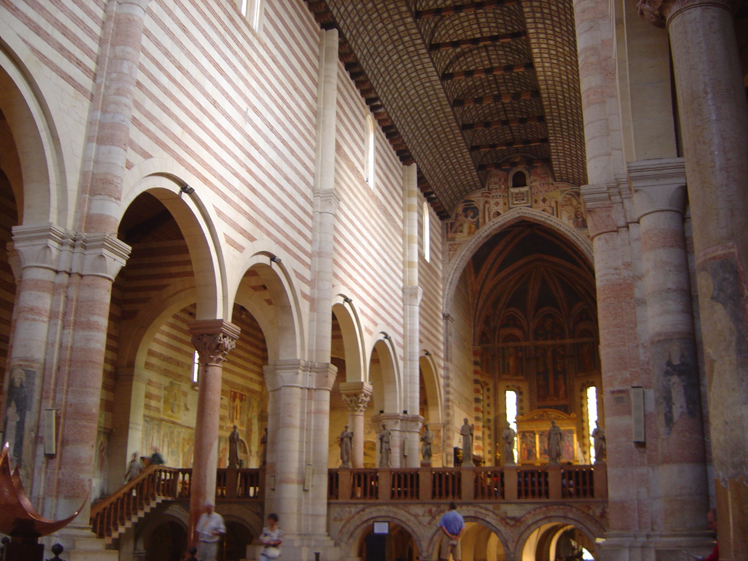 San Zeno basilica, Verona, Italy